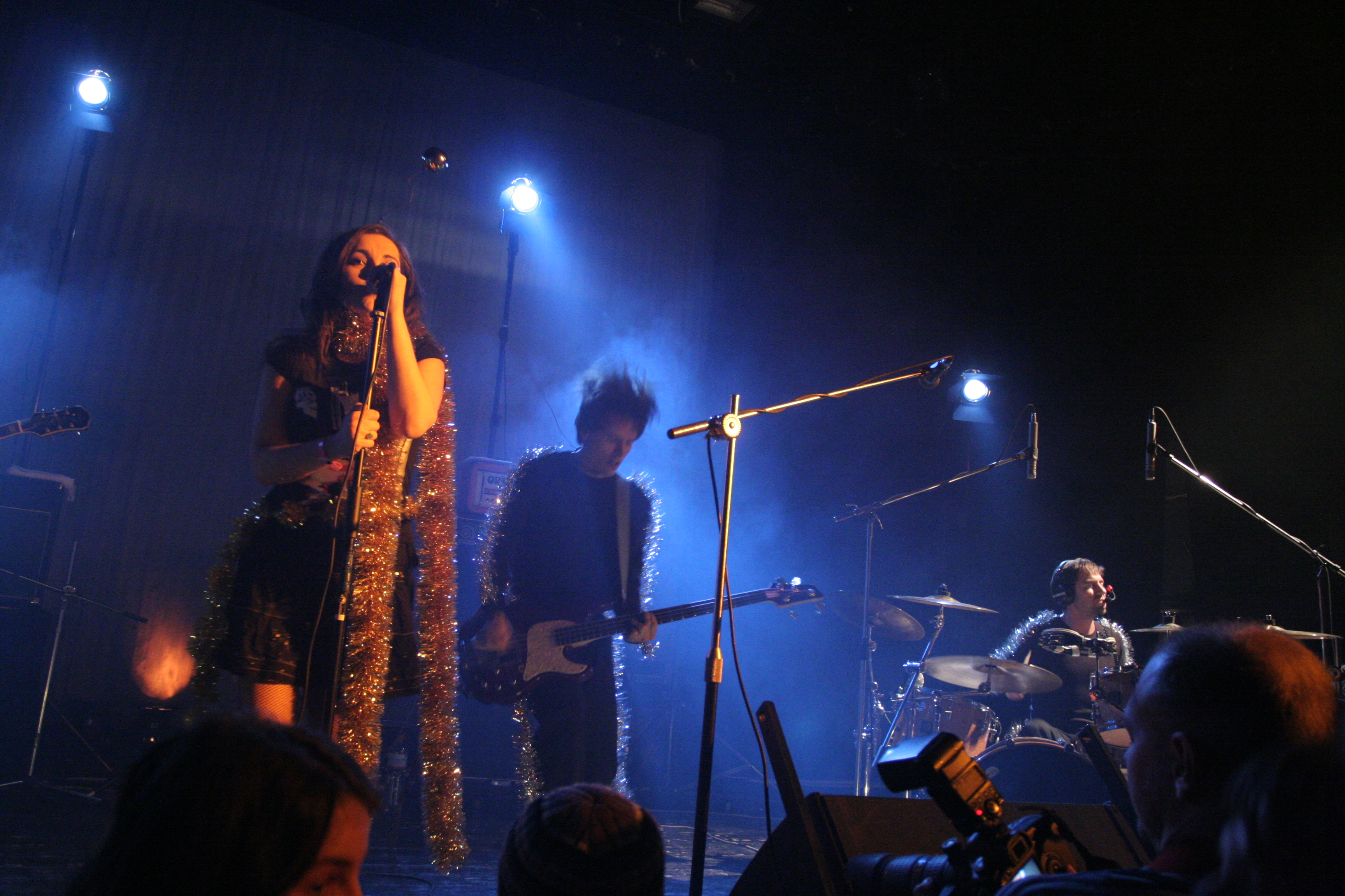 Tata Bojs concert in Prague club Delta